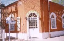 cultura